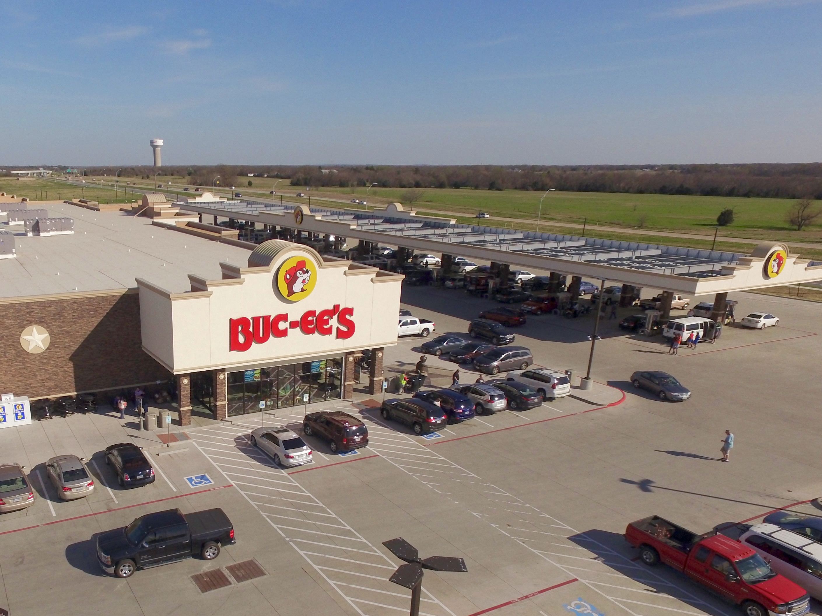 Bucee's in Terrell, Texas